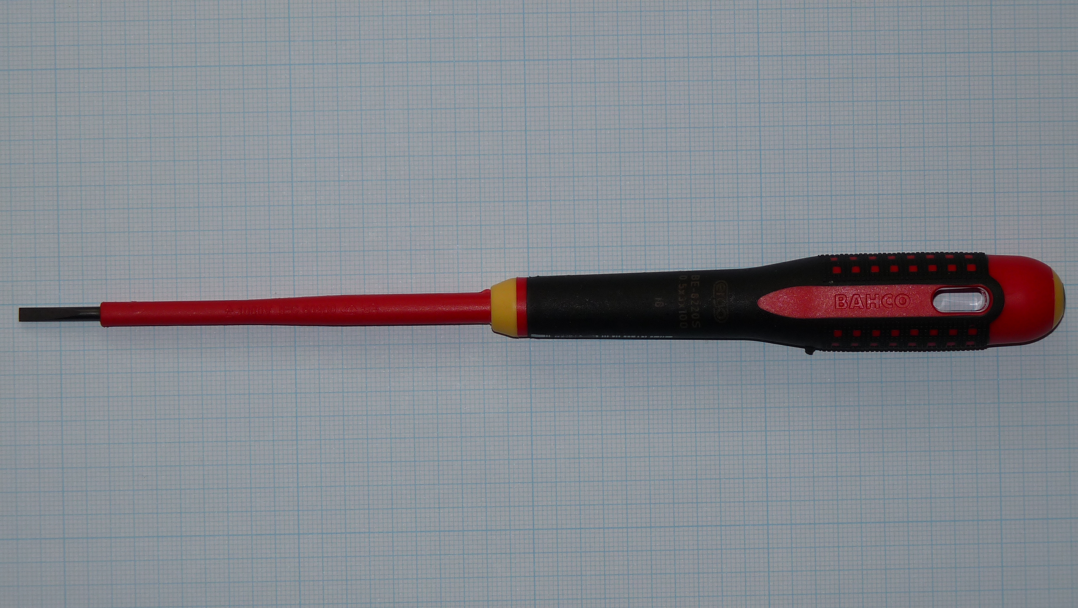 Electric insulated screwdriver